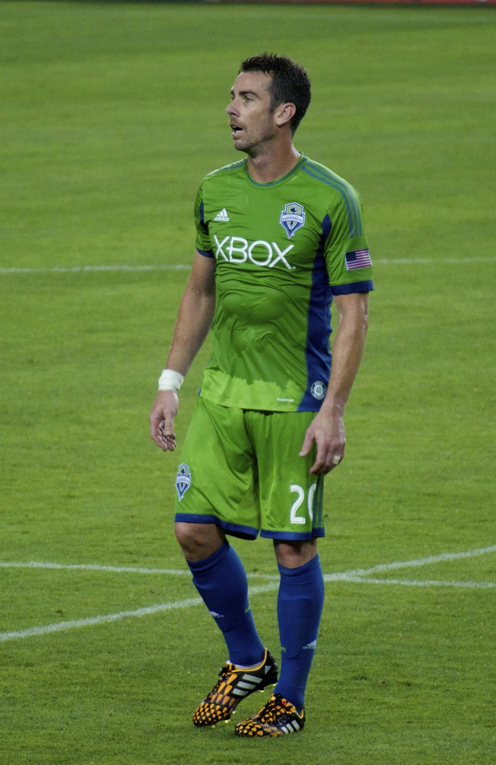 Zach Scott, Levi Stadium inaugural game, Seattle Sounders vs San Jose Earthquakes, Santa Clara, California